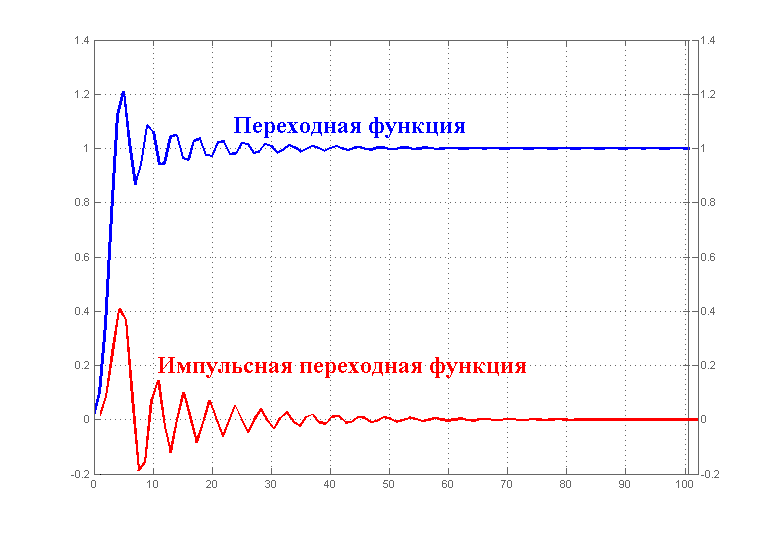 Time domain signals of type II Chebyshev filter